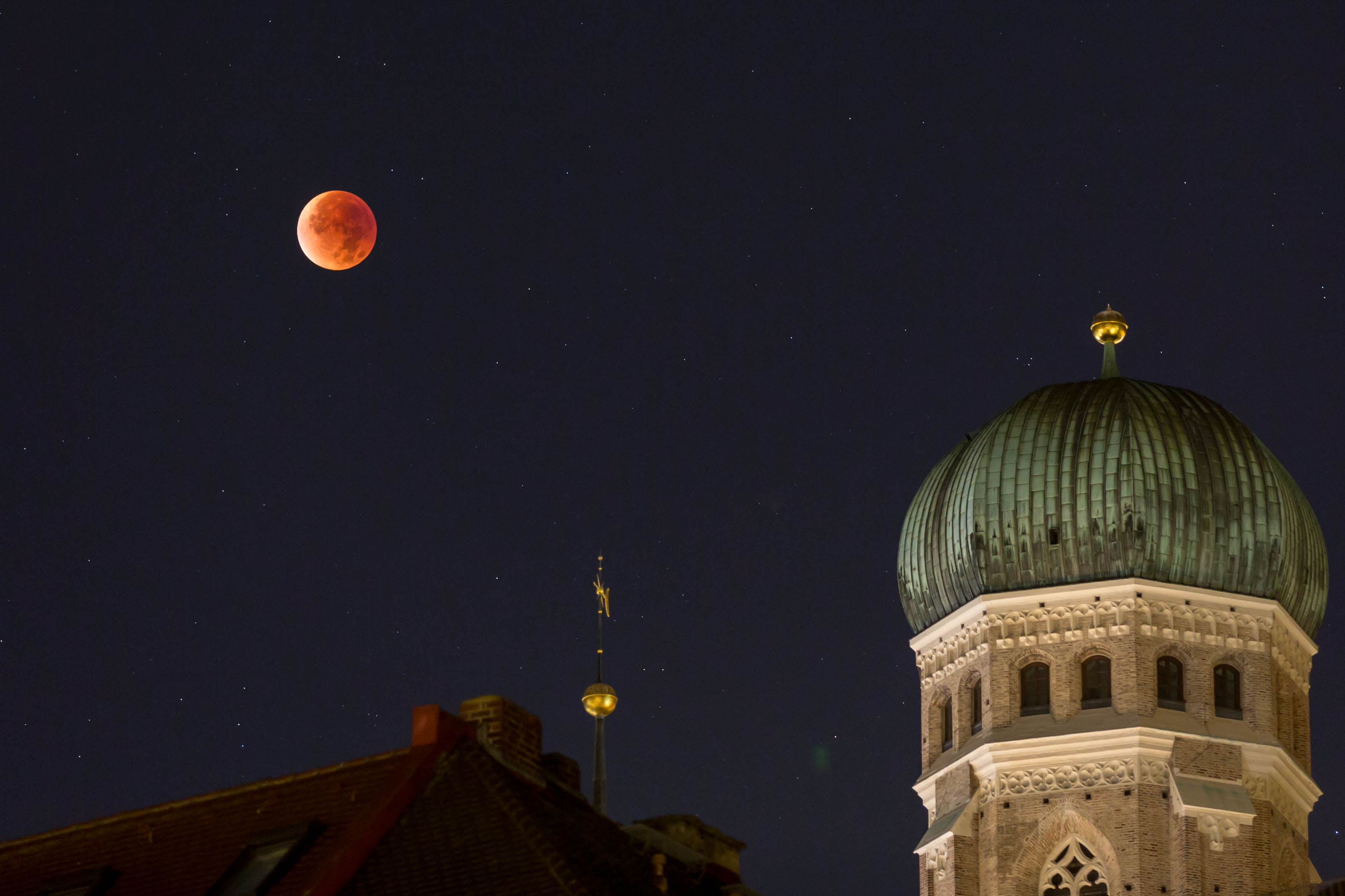 Lunar Eclipse at September 28th 2015 in Munich, Germany. In the Foreground the Frauenkirche.